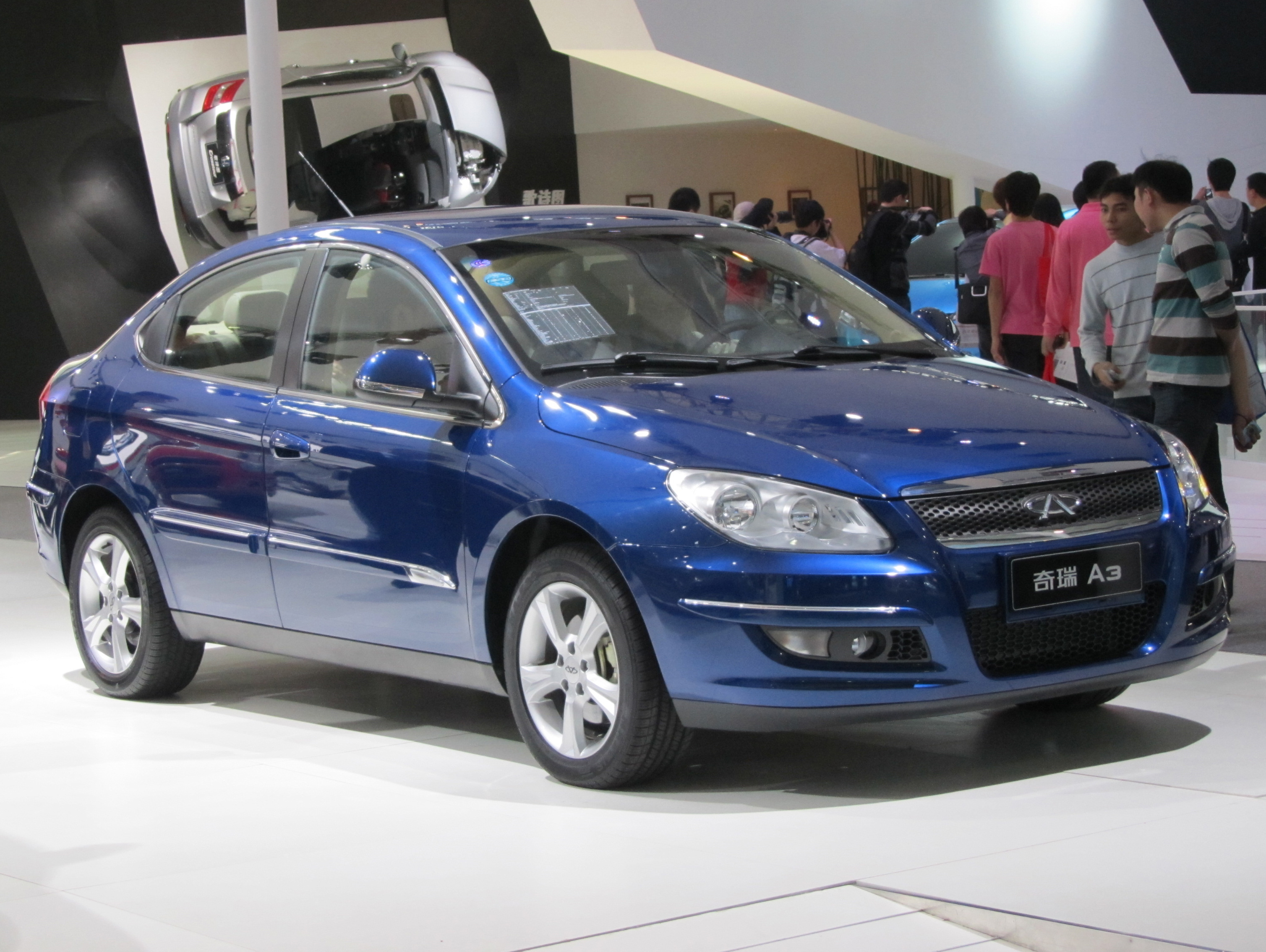 Chery A3 at the 2010 Guangzhou Motorshow